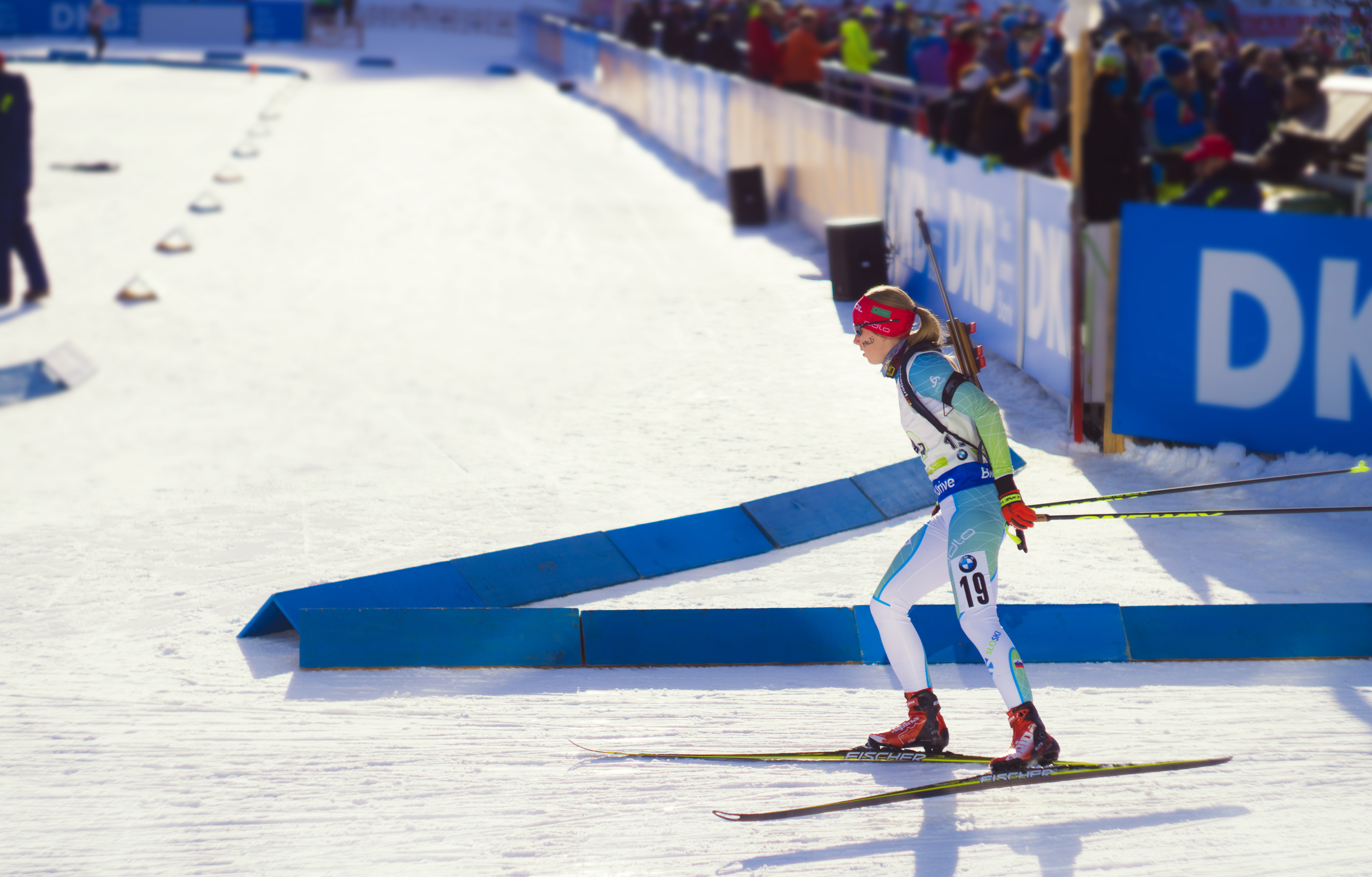 Hello there, Urška Poje. (Biathlon, Women's Relay @ Pokljuka)